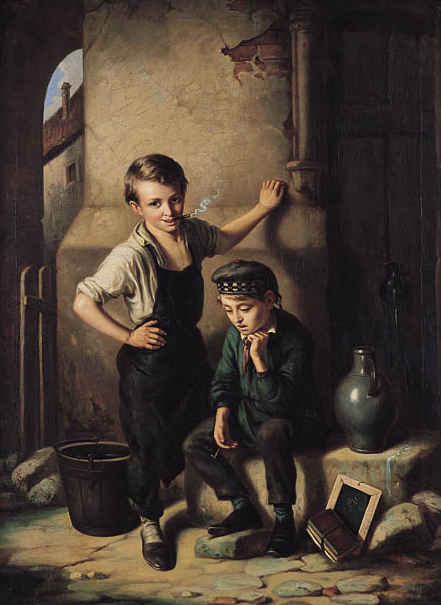 First Cigarette